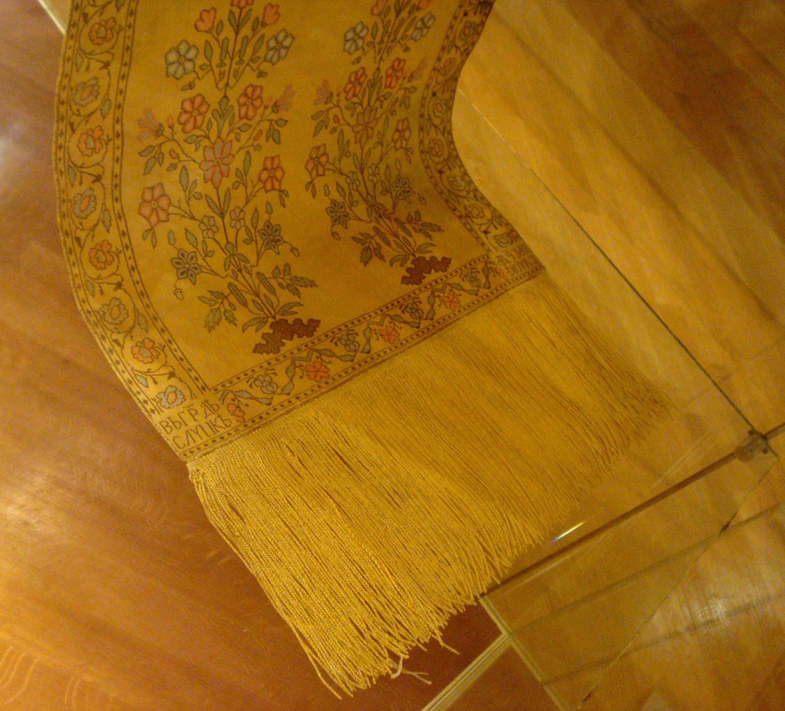 a cyrillic script in Russian language «ВЪ ГРДѢ СЛУЦКѢ» («in Slutsk city») on a Slutsk belt - maded by Leo Madjarski, a master craftsman (Grand Duchy of Lithuania), 1790s AD